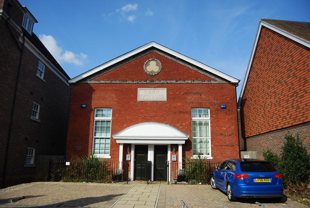 Corn Exchange, Bank St This old corn exchange as now been converted to offices.